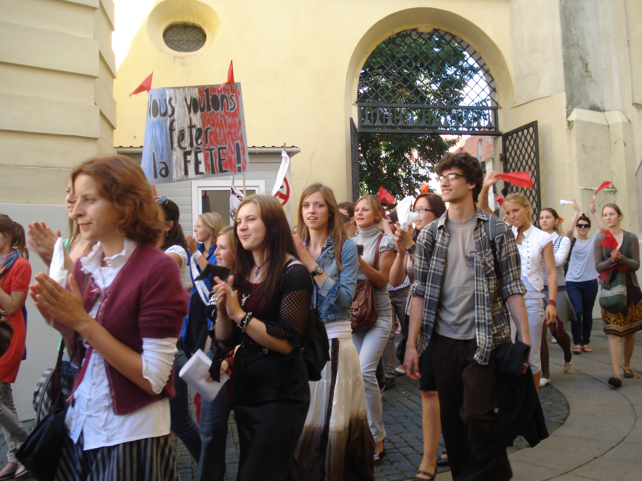 The students of the Faculty of philology marching in the Great Courtyard of the Vilnius University. 2009.09.01